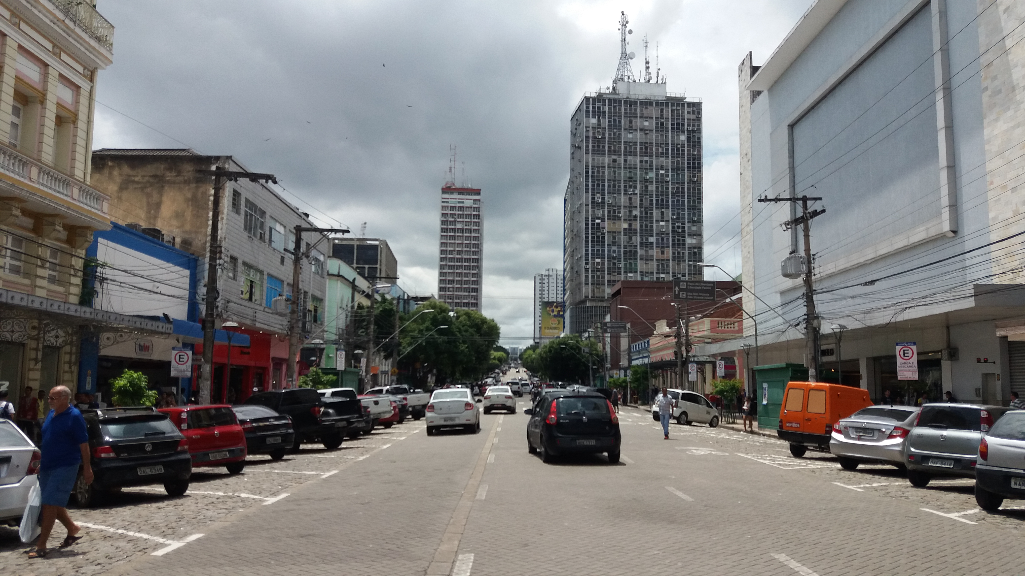 Eduardo Ribeiro Avenue - Manaus, Brazil.